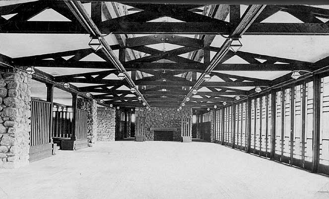 Banff National Park Pavillion interior, circa 1913.